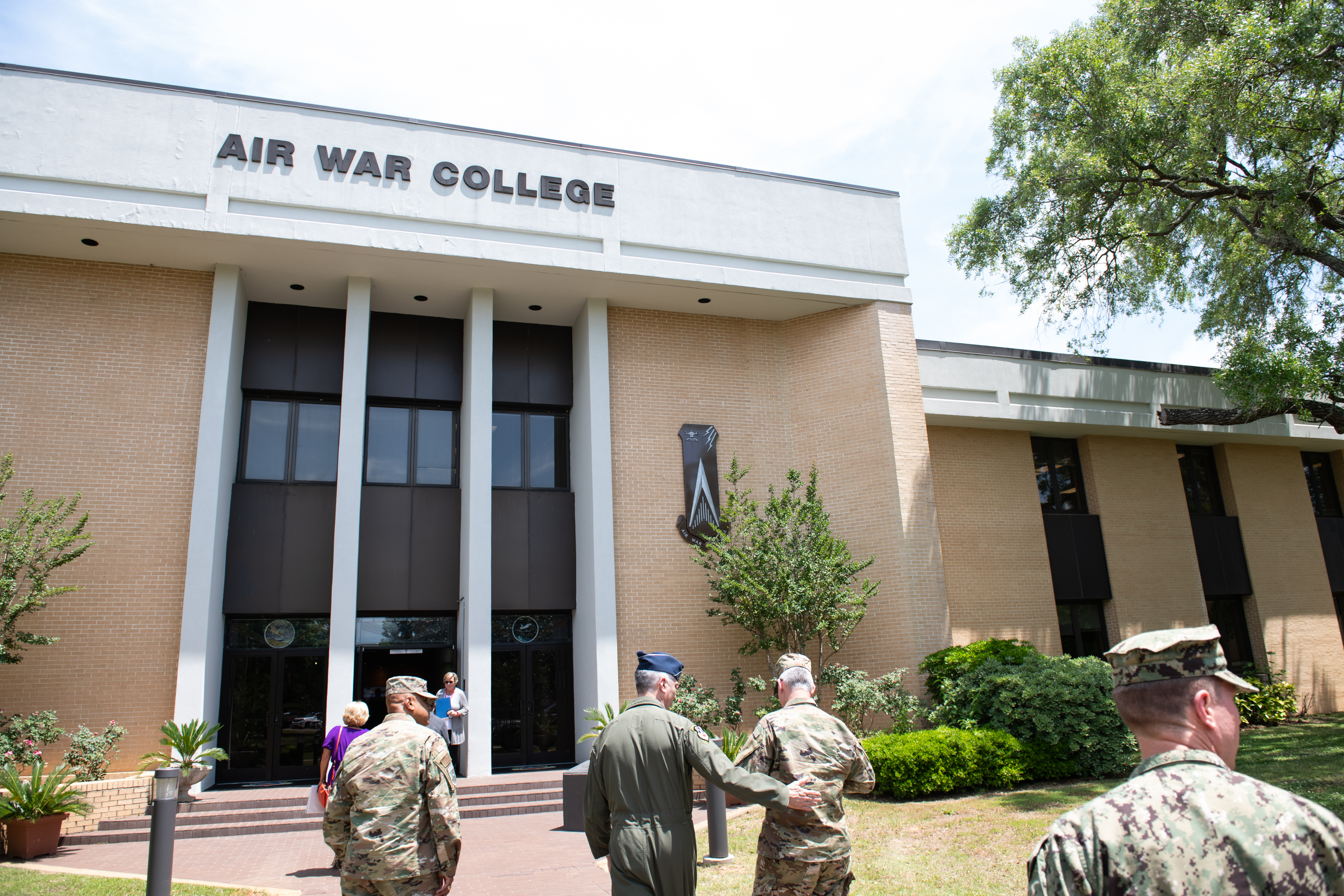 U.S. Air Force Brig. Gen. Jeremy T. Sloane welcomes U.S. Air Force Gen. Paul J. Selva, vice chairman of the Joint Chiefs of Staff, before he speaks to Air War College students at Maxwell Air Force Base, Alabama; April 30, 2019. (DoD Photo by U.S. Army Sgt. James K. McCann)